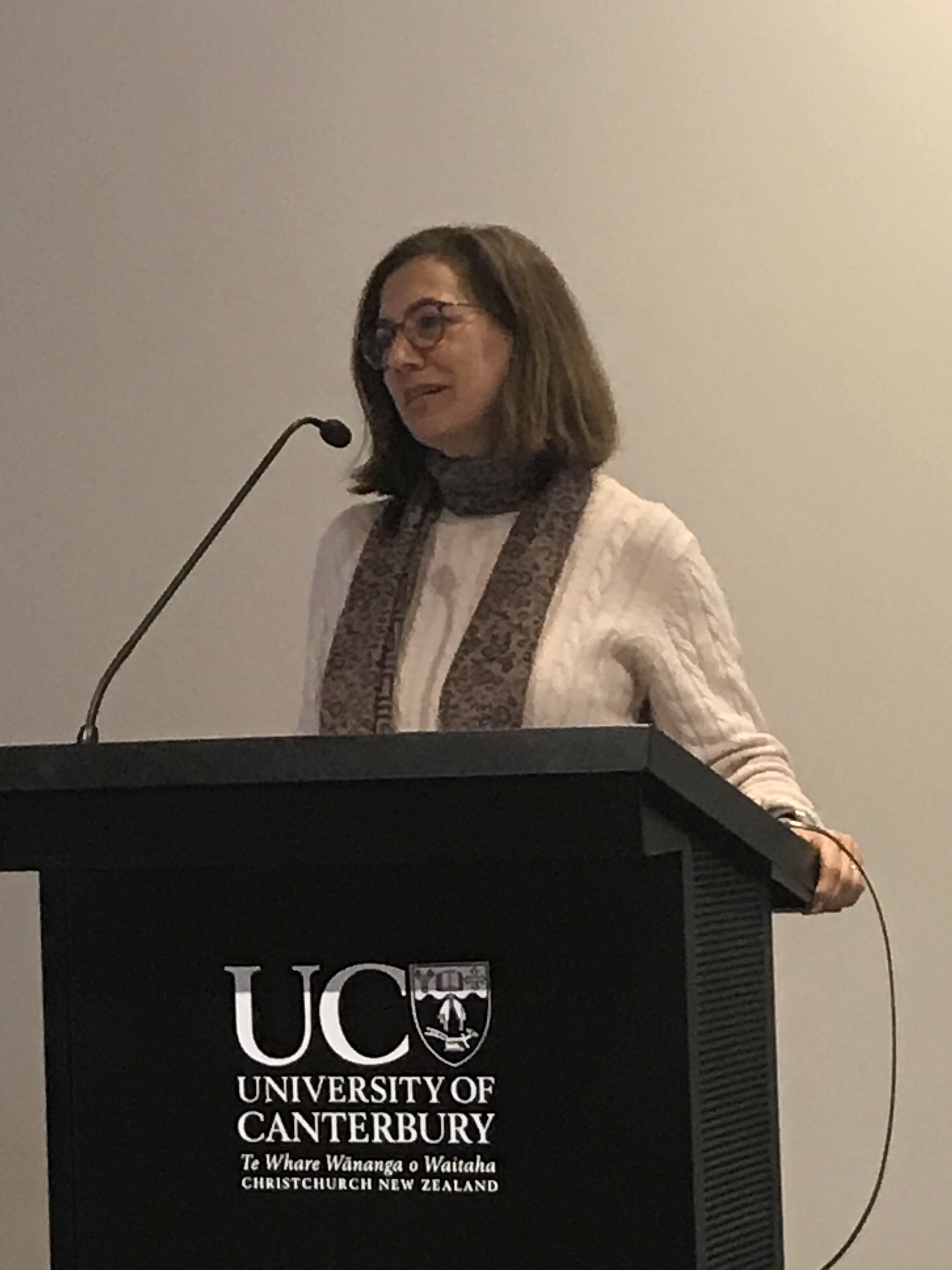 Cheryl de la Rey in August 2019